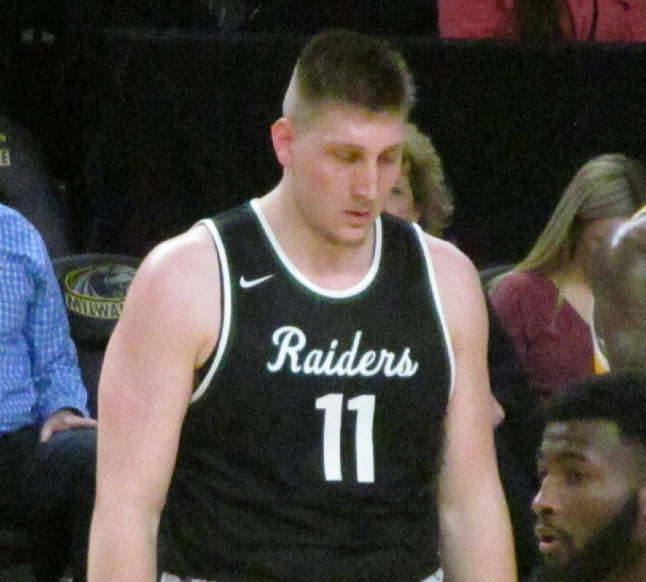 Sophmore center on Wright State's basketball team.